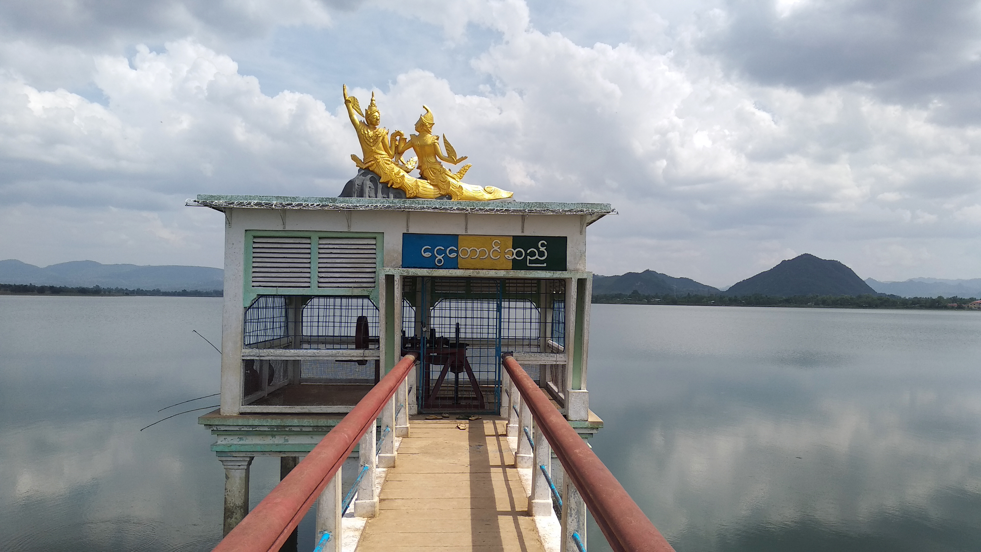 Ngwe Taung Dam, Demoso Township, Kayah State, Myanmar မြန်မာဘာသာ: ကယားပြည်နယ်၊ ဒီမောဆိုးမြို့နယ်ရှိ ငွေတောင်ဆည်